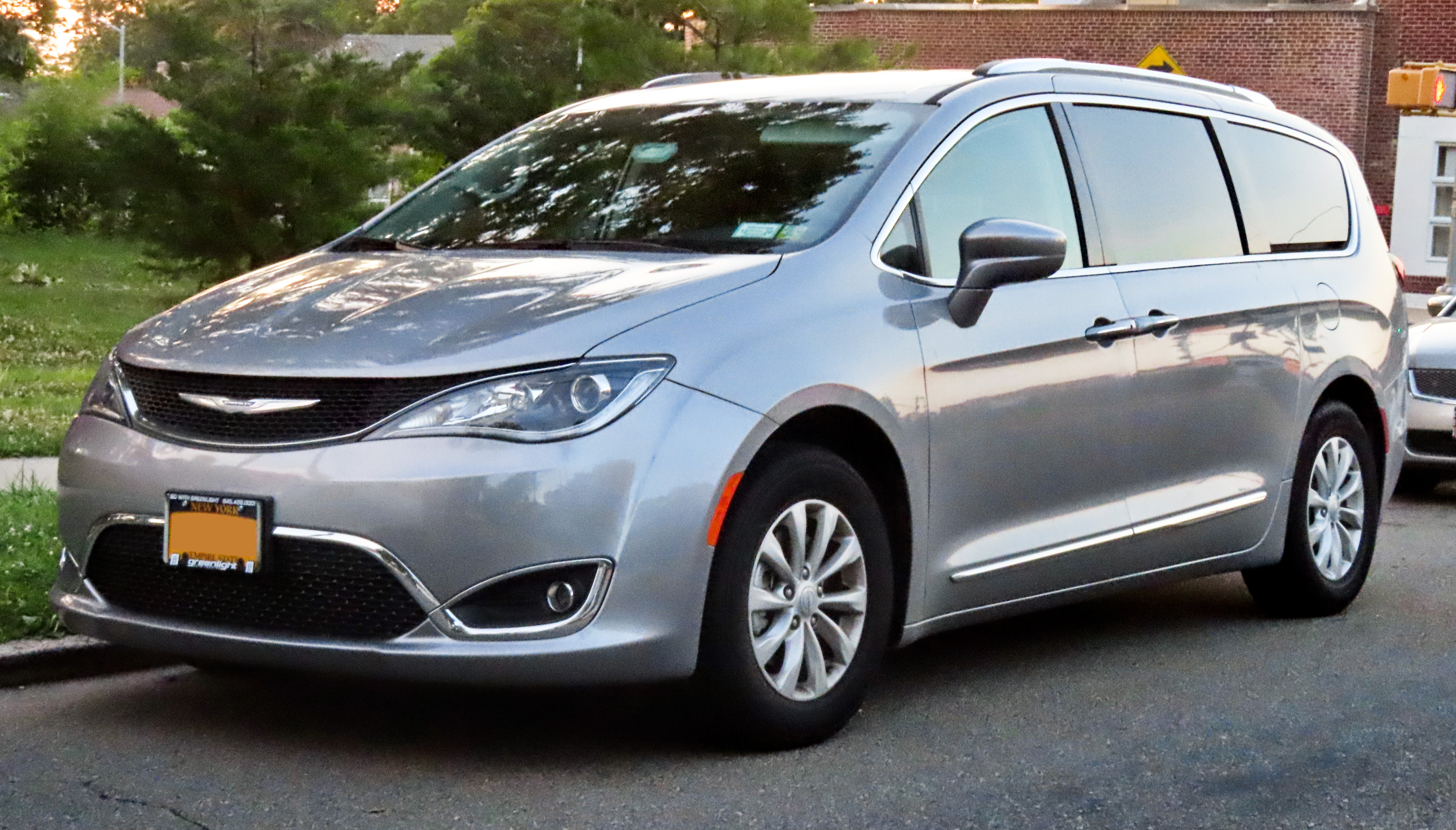 A 2019 Chrysler Pacifica photographed in Kew Gardens Hills, Queens, New York, USA